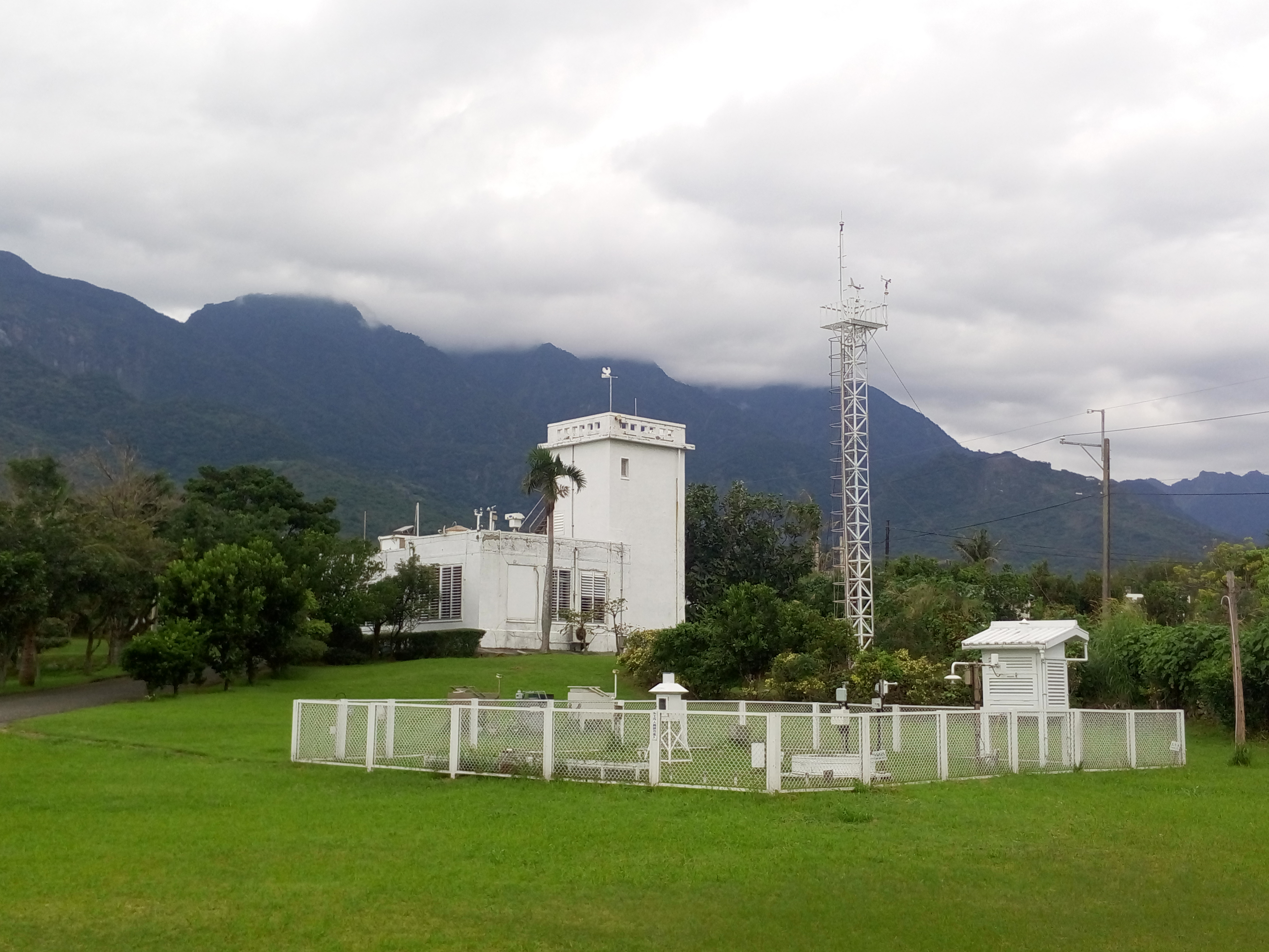 Cheng-Kung Weather Station